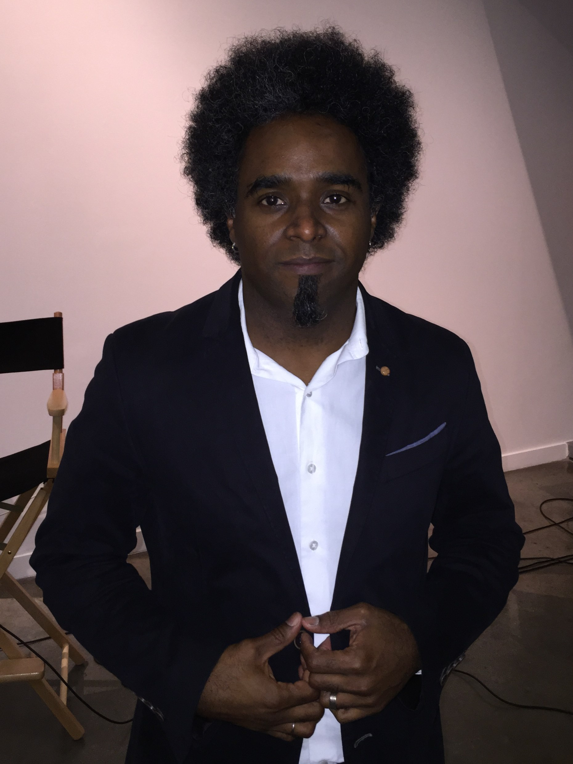 Alexandre Arrechea in September 2014